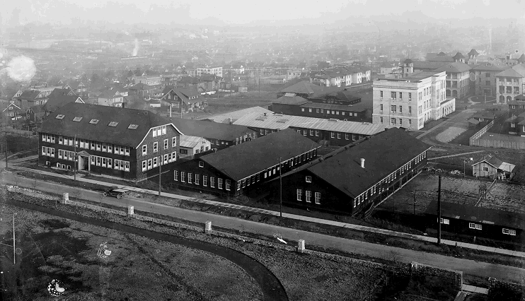 UBC Fairview campus looking east from the roof of King Edward High School at Oak Street and 12th Avenue. Oak Street is in the foreground; north at left. At the upper right are the backs of the granite buildings of VGH facing Heather Street between 10th and 12th Avenues.